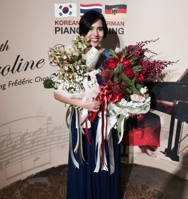 Caroline Fischer - Pianist - 02/2015 - Bangkok